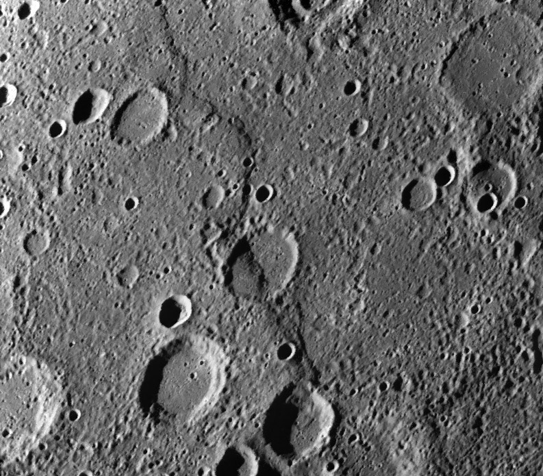 Image of Santa Maria Rupes on Mercury, taken by NASA's Mariner 10 probe. Mariner 10 image 0027448.